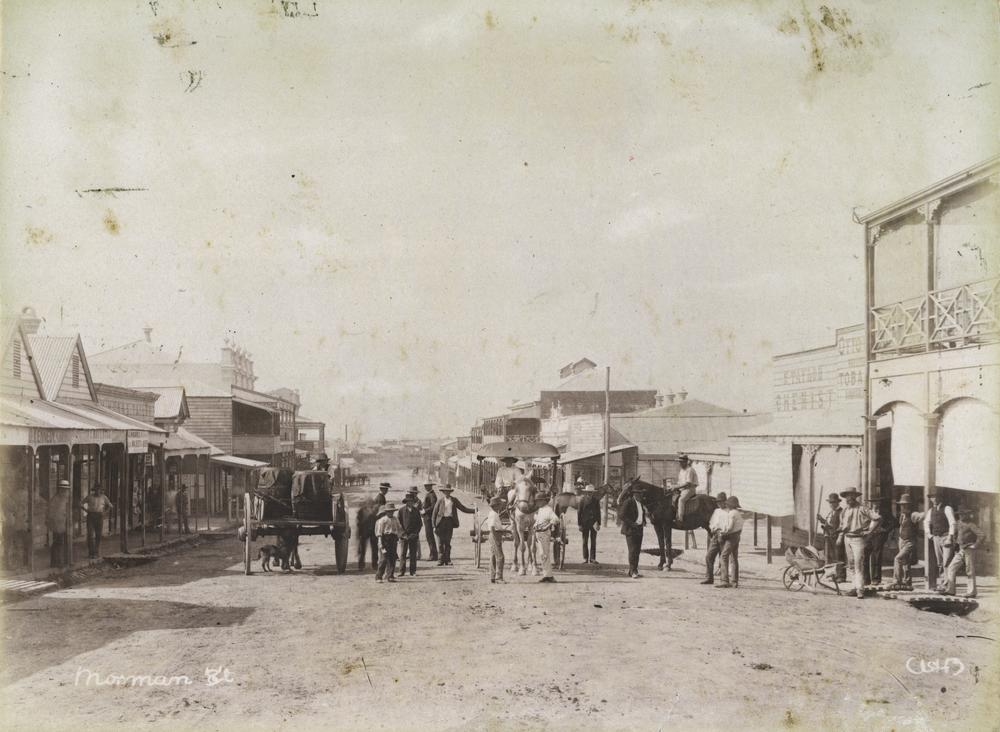 Gathering in Charters Towers at Mosman Street around 1888.